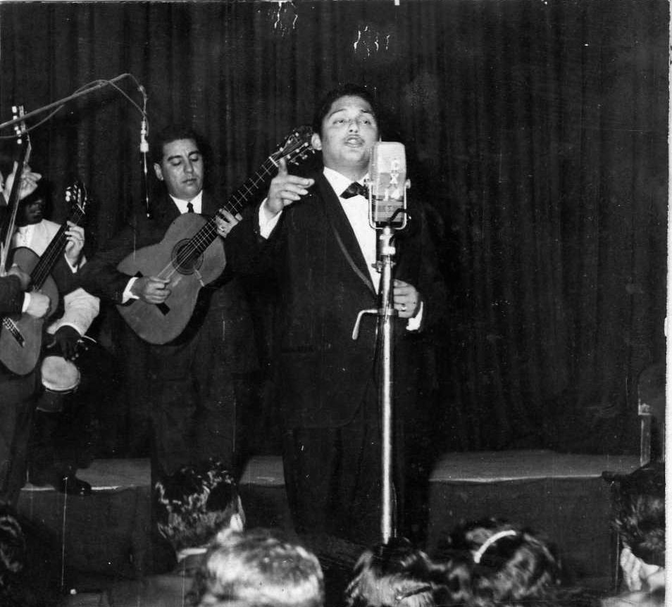 This is a picture of the singer Julio Jaramillo Laurido, taken more than 38 years ago, it is an original picture from my camera.